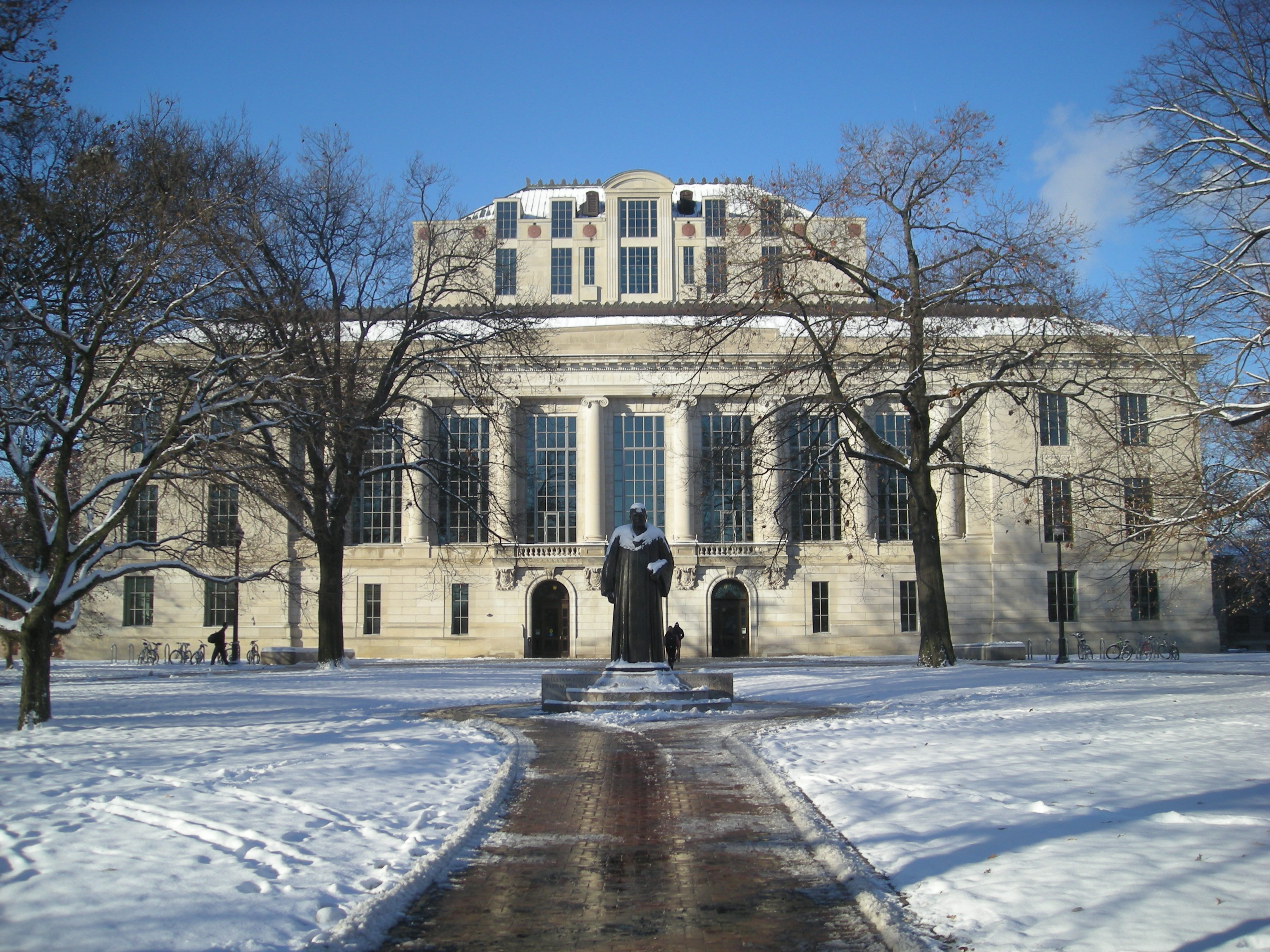 The Thompson Library on the campus of The Ohio State University in Columbus, Ohio (United States).